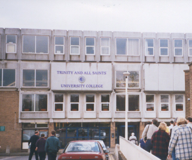 Trinity & All Saints College. Teacher training college, part of Leeds University.